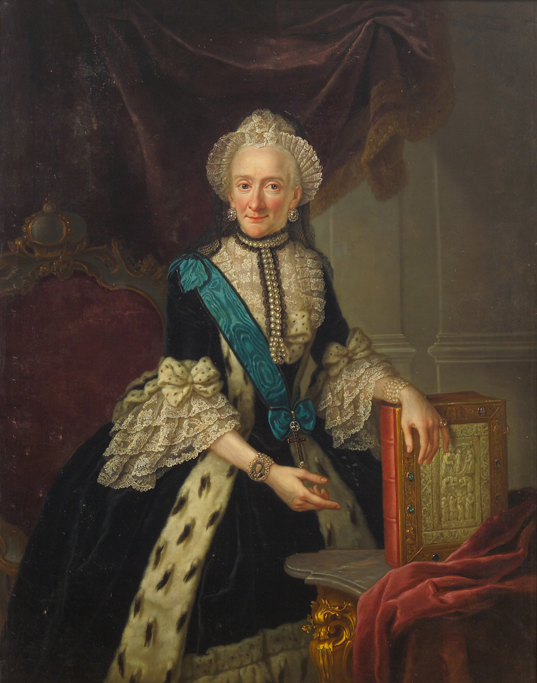 Therese Natalie of Brunswick-Wolfenbüttel, princess-abbess of Gandersheim with the blue ribbon of Gandersheim. Signatur: Sig. und dat. auf der Rückseite: peint par Rosnie de Gasc née de Lisiewska à Gandersheim 1773.